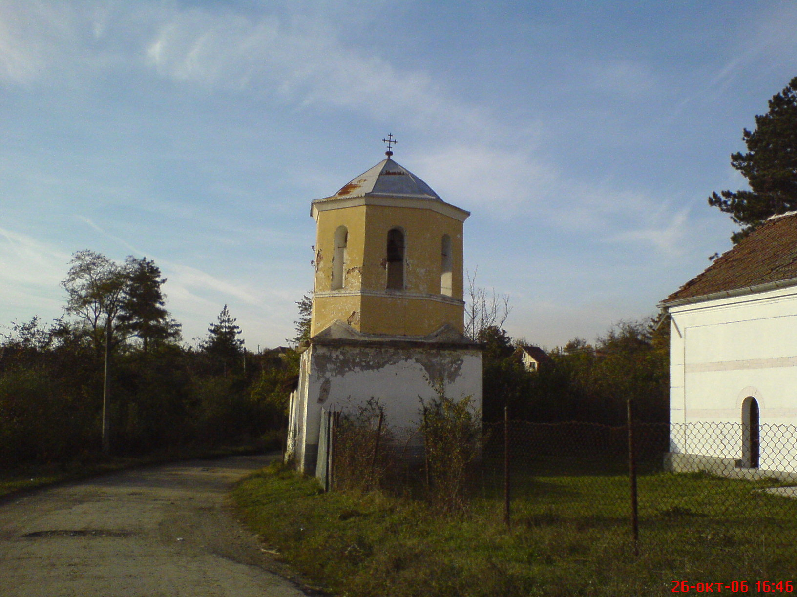 The belfry in village Studeno buche, Bulgaria.